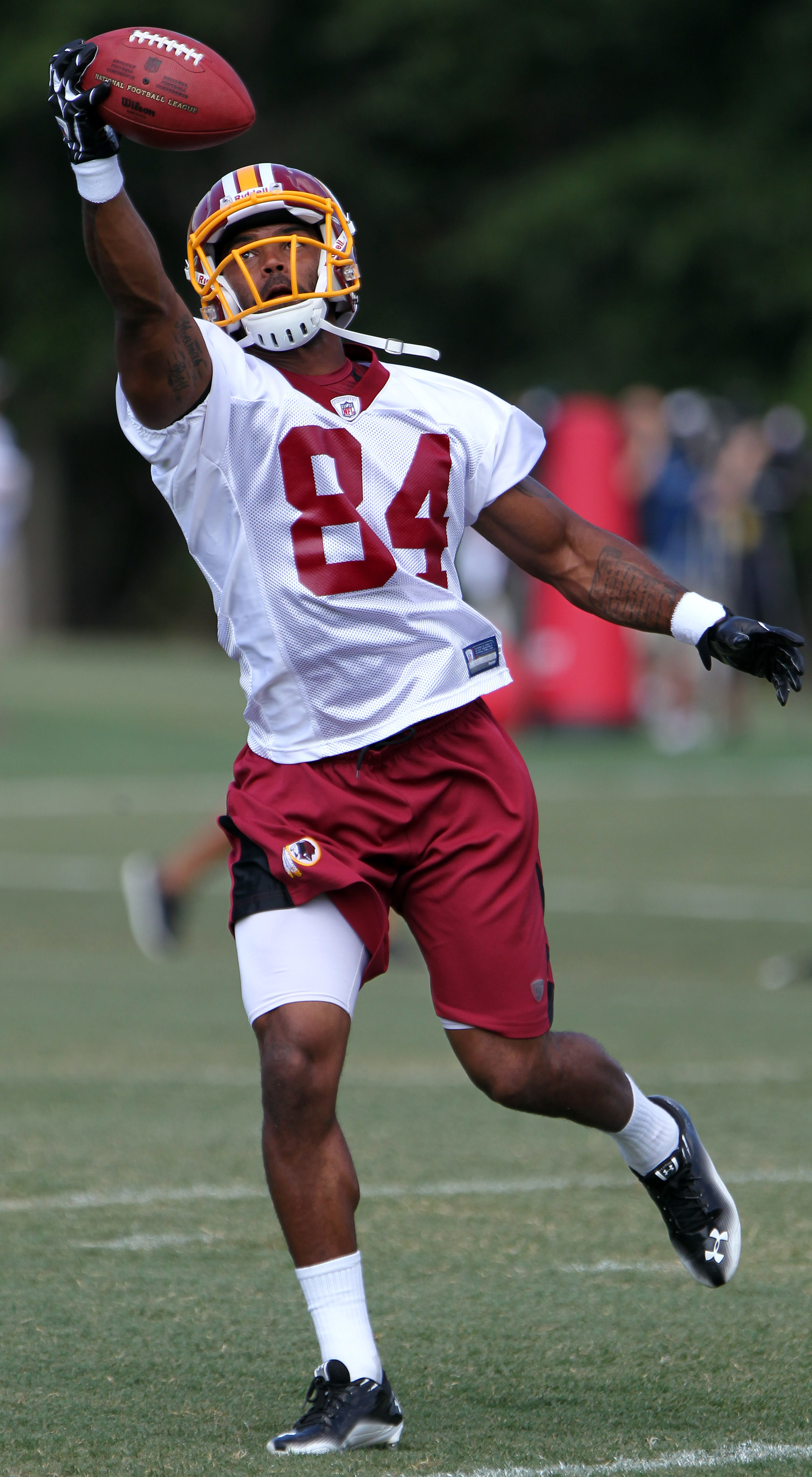 Washington Redskins Training Camp August 4, 2011